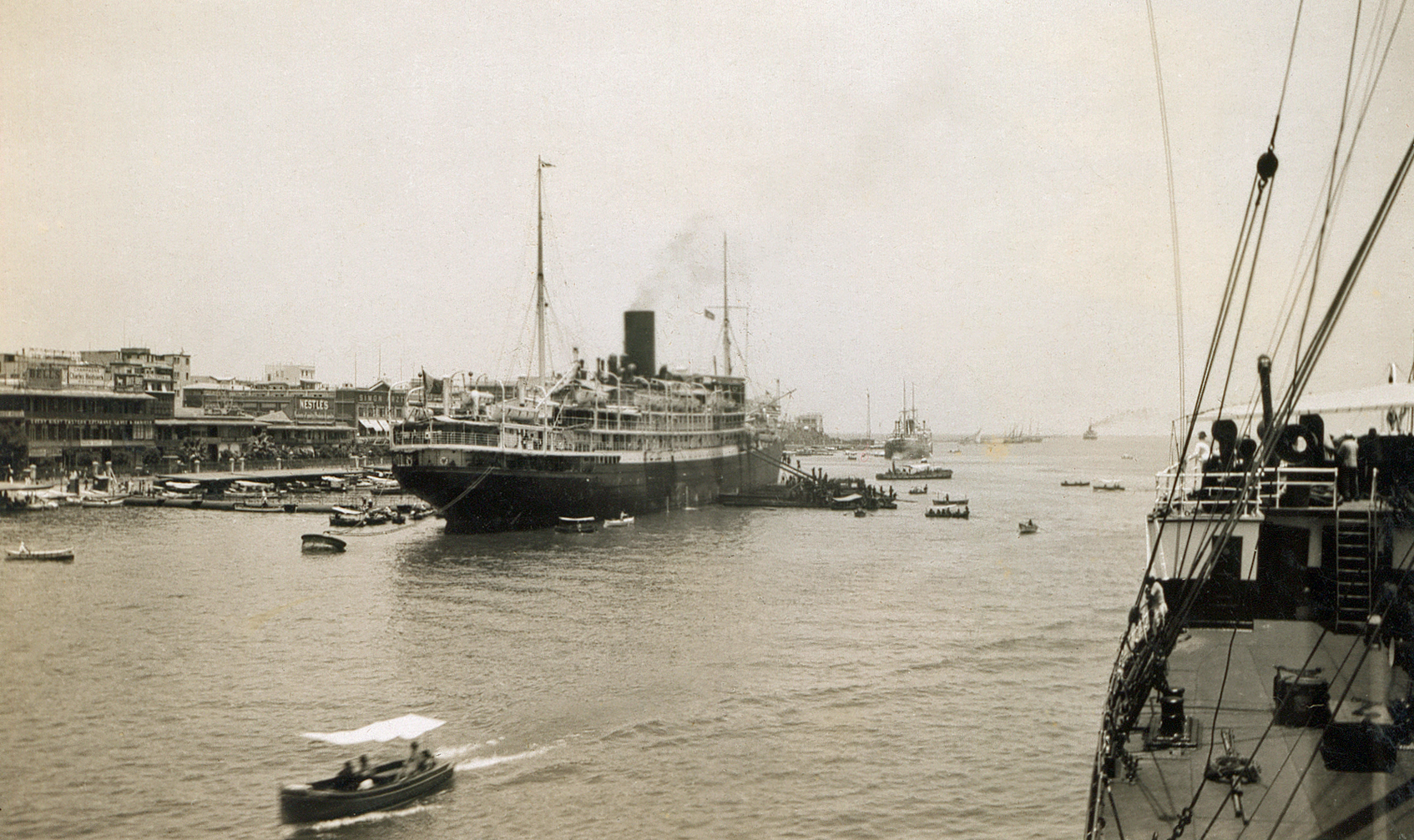 Ships in the harbour of Port Said (Egypt) in the 1930's